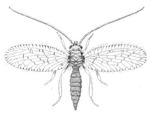 Psectra diptera, an insect of Hemerobiidae